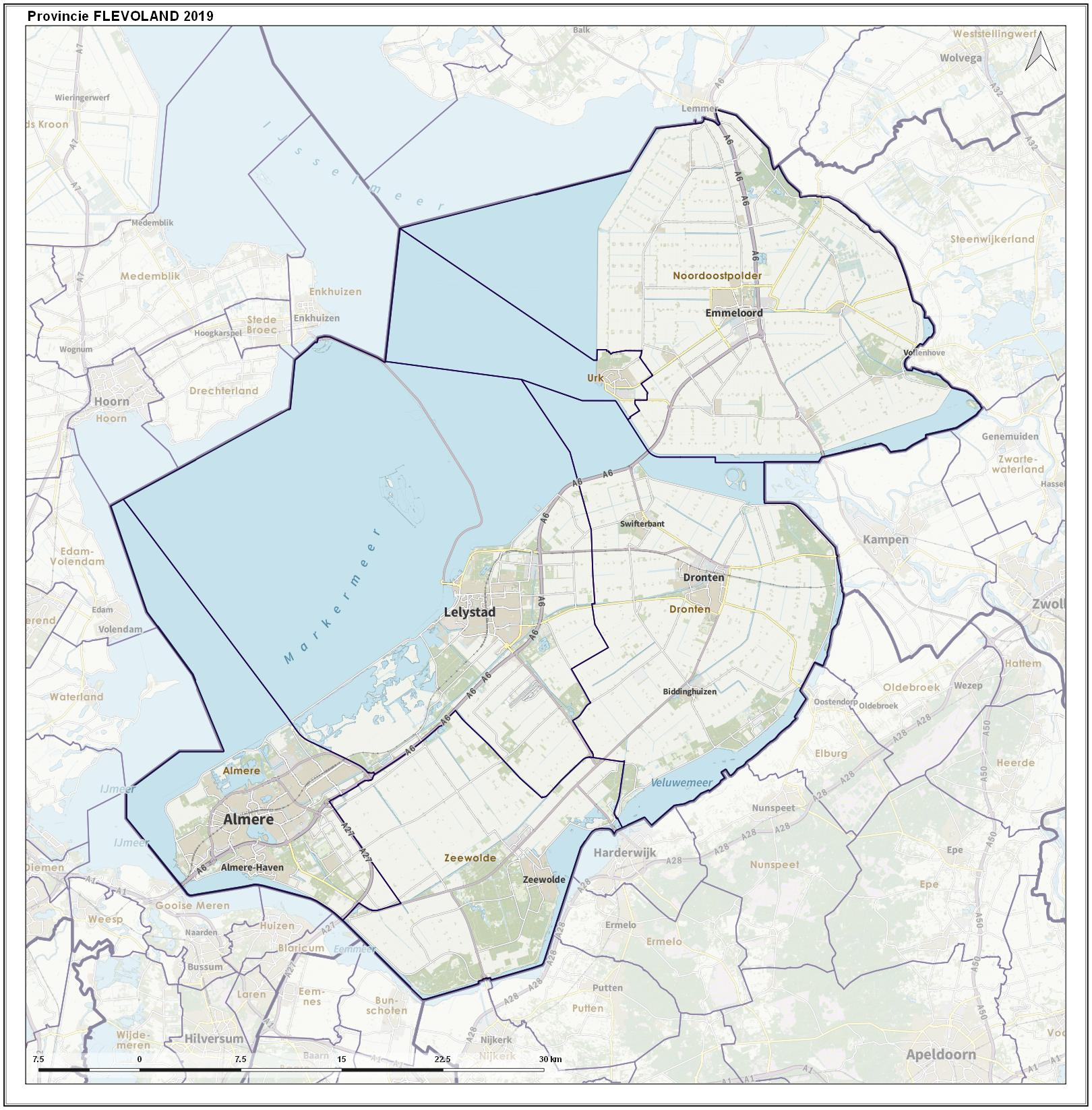 Overview map of the province, including municipal borders, largest places and major infrastructure.